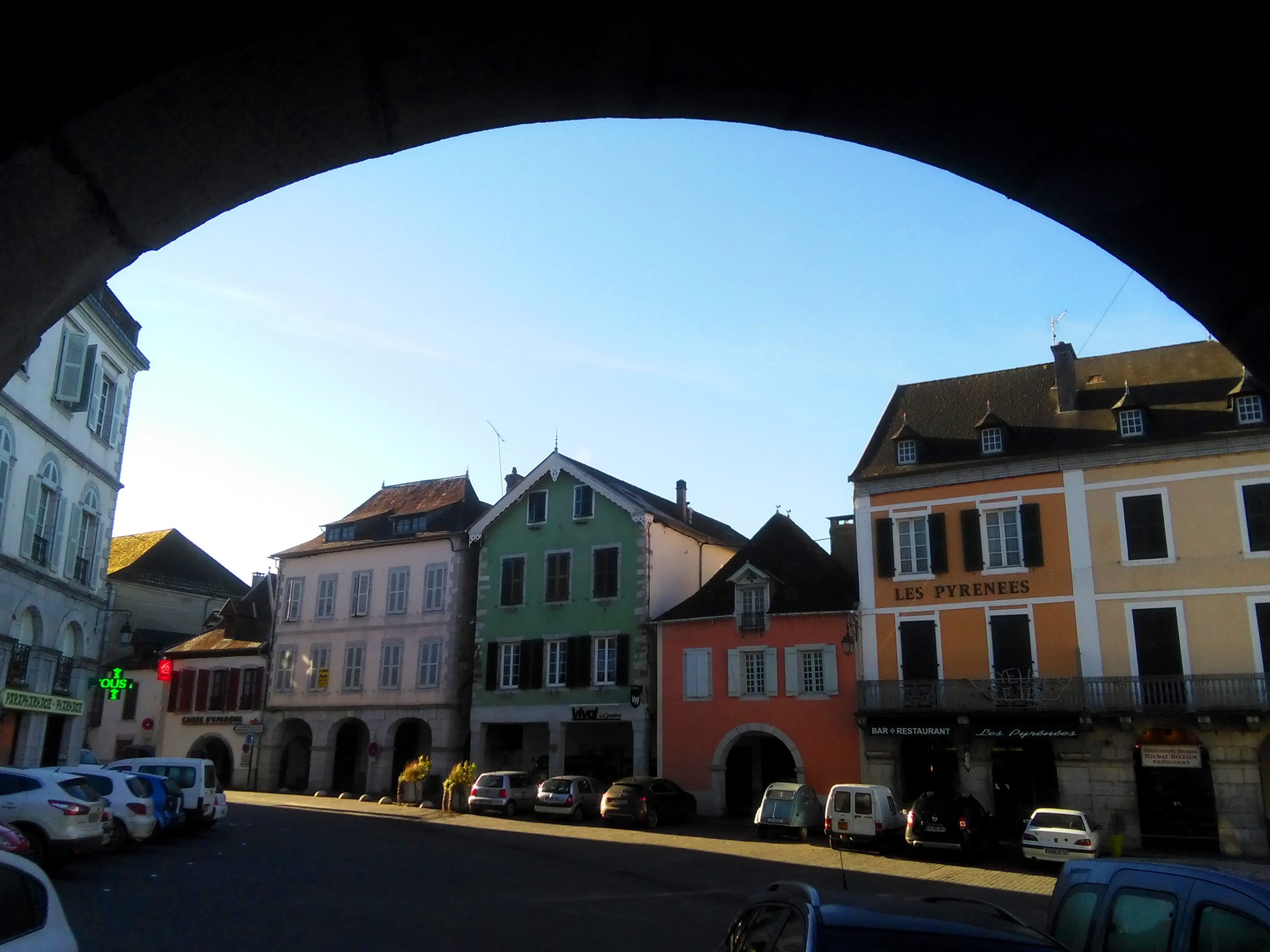 Main square of Tardets-Sorholus